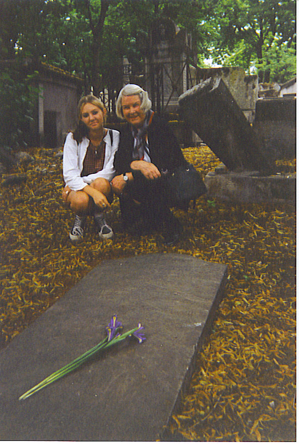 Mary Camper-Titsingh and her grand-daughter at Isaac Titsingh's grave site in Pére Lachaise -- July 13, 1996.